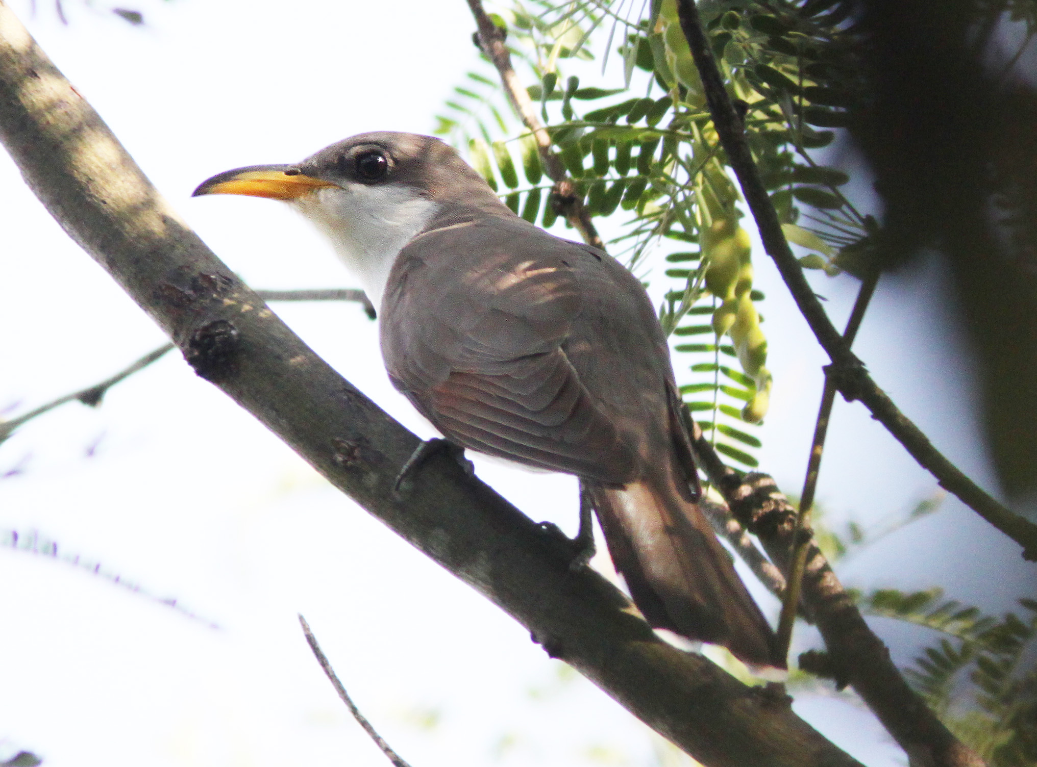 ARIZONA - BIRDS of SANTA CRUZ County